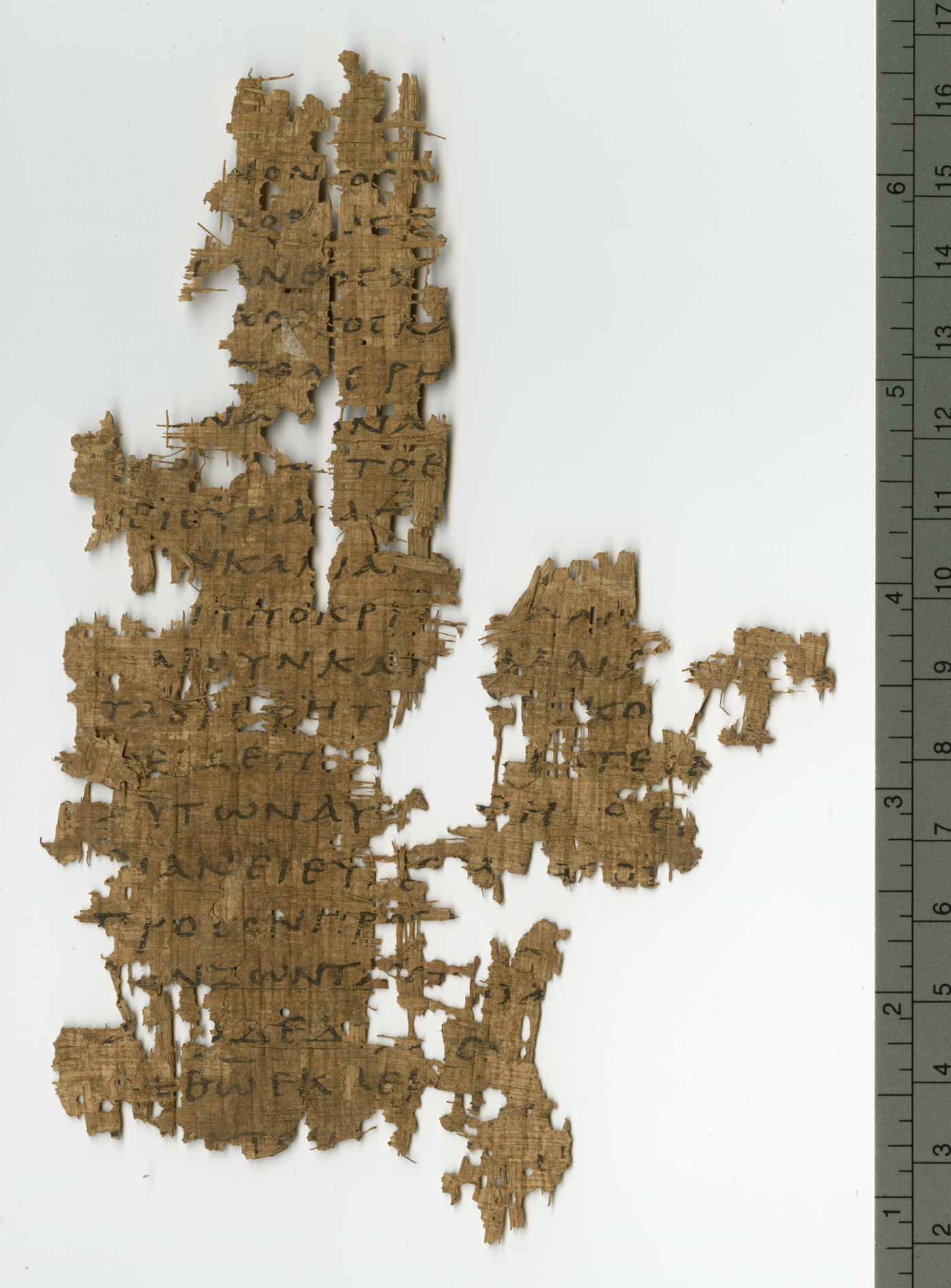 Papyrus 125 Recto